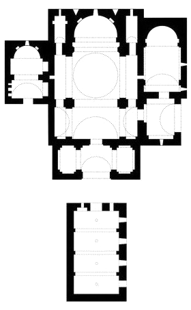 Floor plan of the 13th century Georgian monastery near village Kirants, Tavush Province, Armenia.